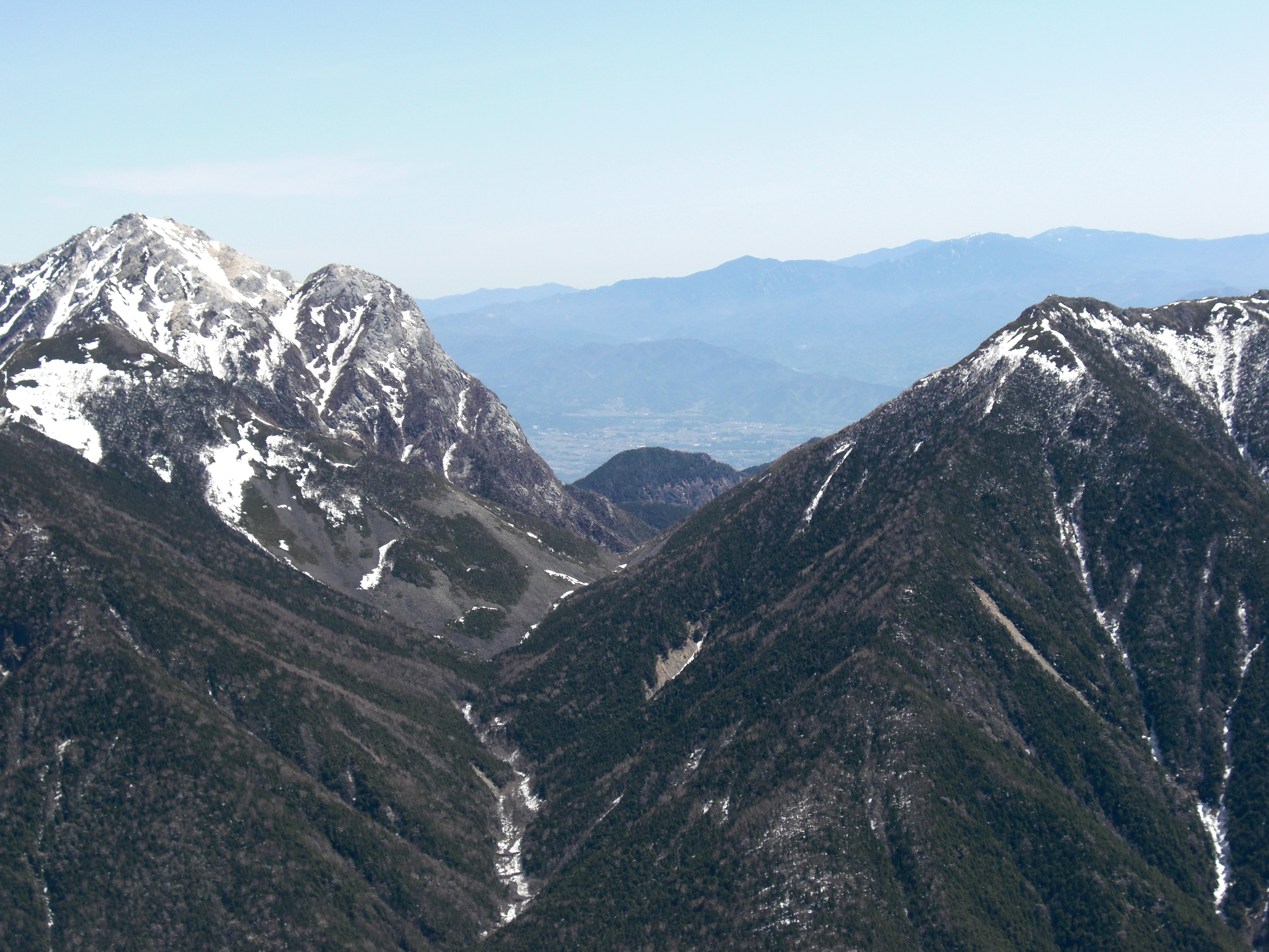 Sensui pass from Mount Ko-Senjo, located in northern Akaishi Mountains, Japan.